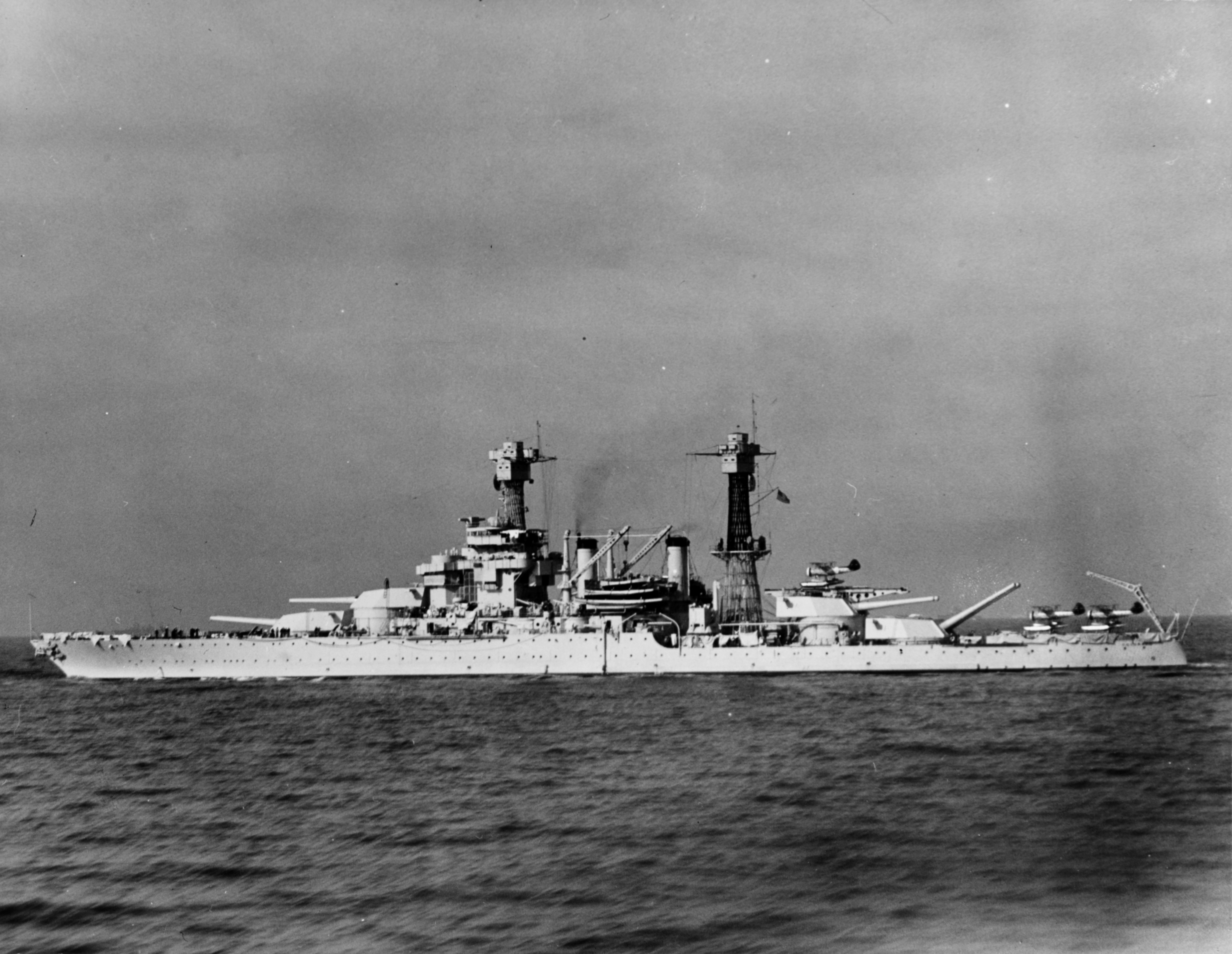 Photographed during the middle or later 1930s, after the addition of additional machinegun positions on her foremast top. Airplanes on her catapults are Vought O3U-3 Corsairs. U.S. Naval History and Heritage Command Photograph.